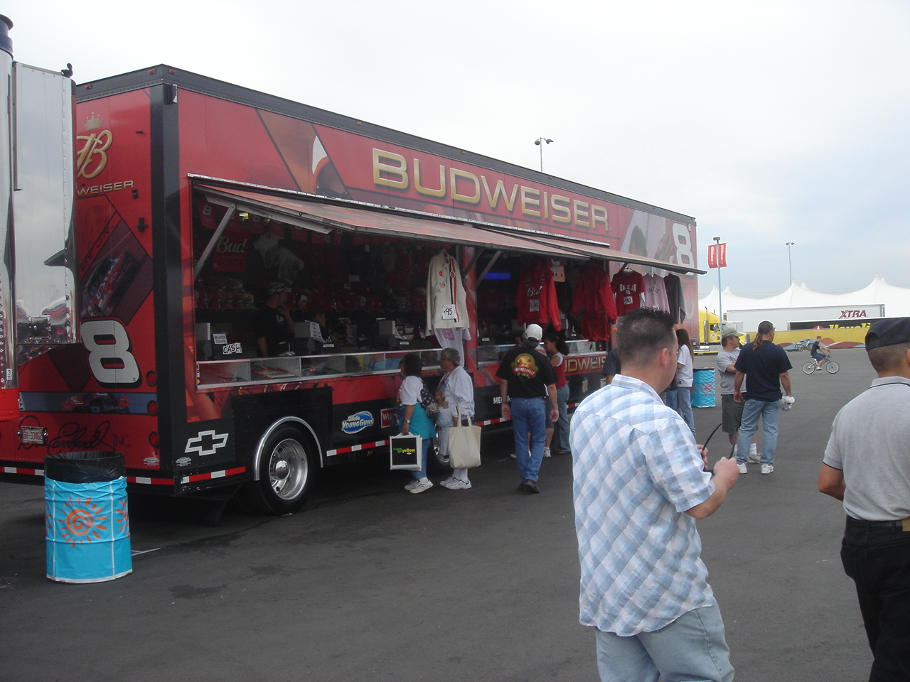 A picture of the Dale Earnhardt, Jr. Bud merchandise hauler. I took this picture myself and release it to the public domain for anyone to use for any purpose.